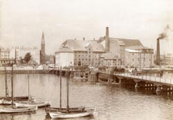 Royal Brewhouse situated with Langebro Copenhagen 1905